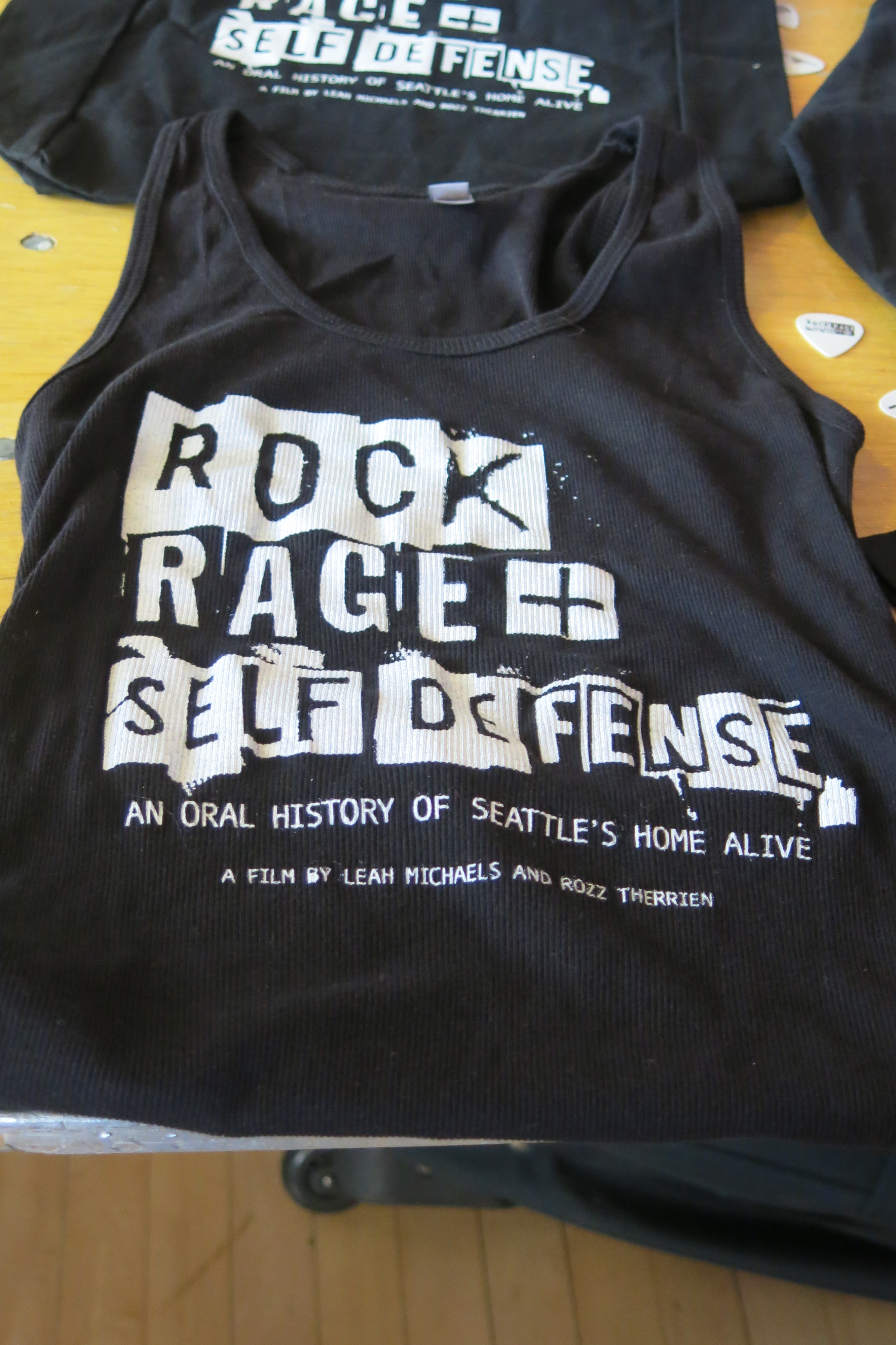 From the Women (un)Conference in Seattle, WA on April 25th, 2014 at the Washington Hall. Therrien and Michaels came to sell their merchandise